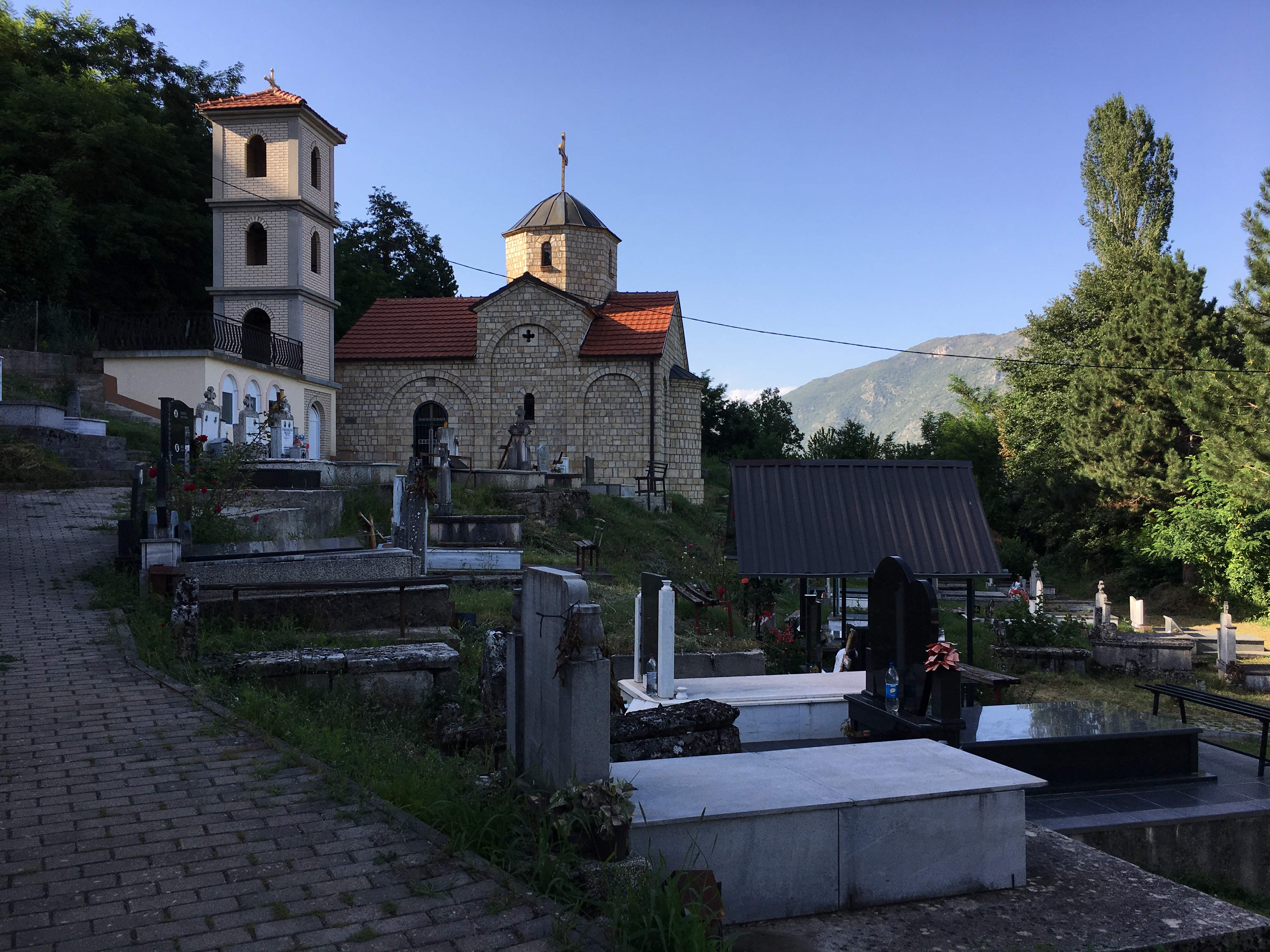 Yard of St. George Church in the village of Nerezi